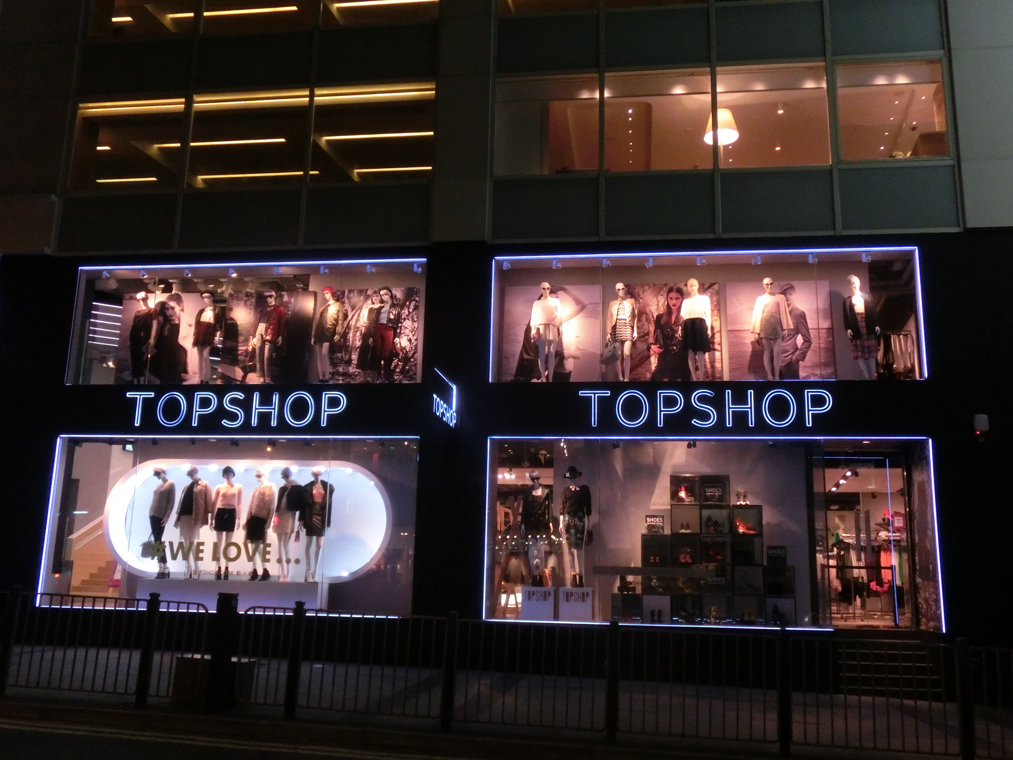 Shop window of Topshop, Queen's Road Central, Hong Kong